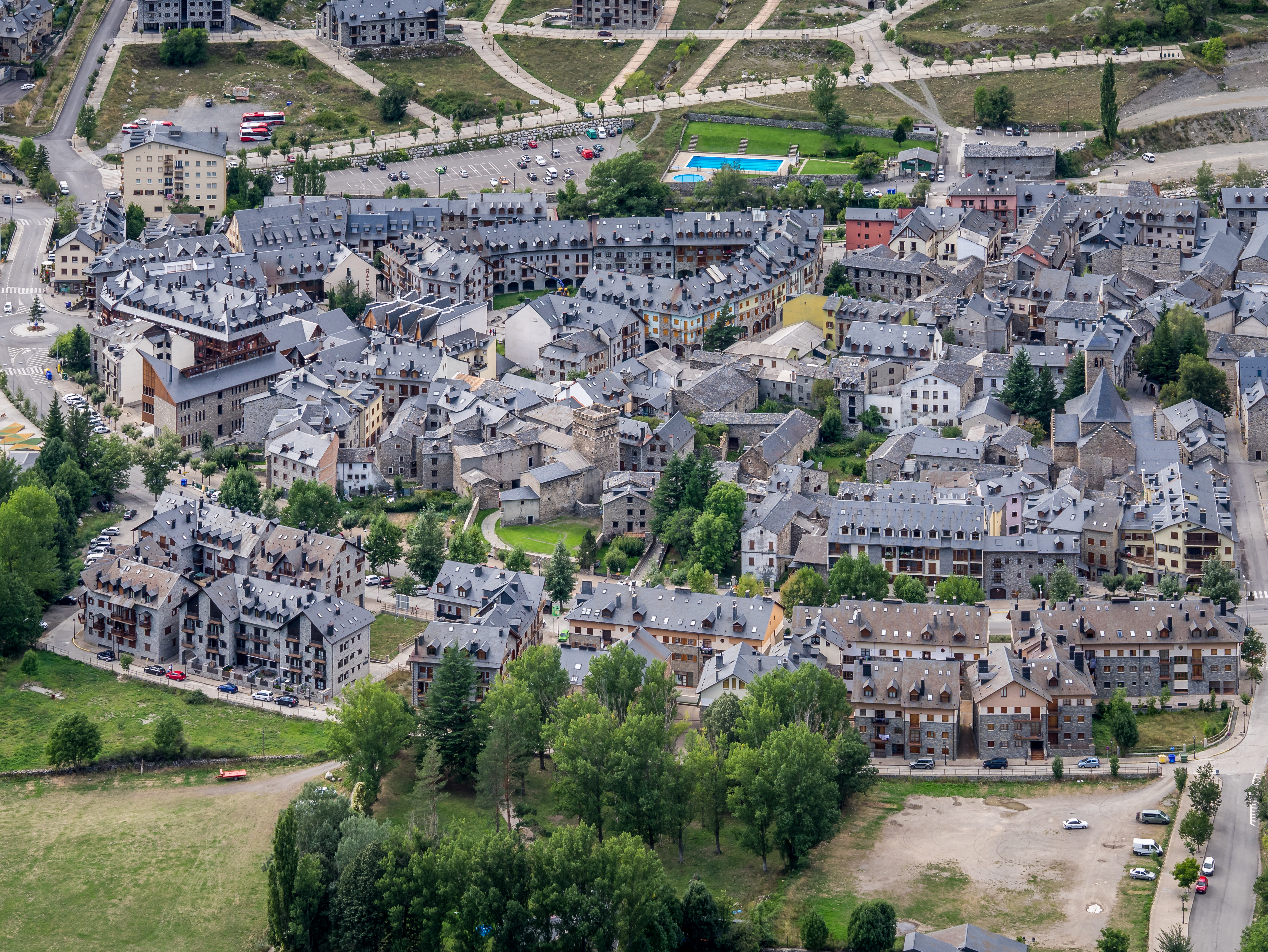 Benasque, as seen from the Benasque Viewpoint near Cerler. Huesca, Aragon, Spain